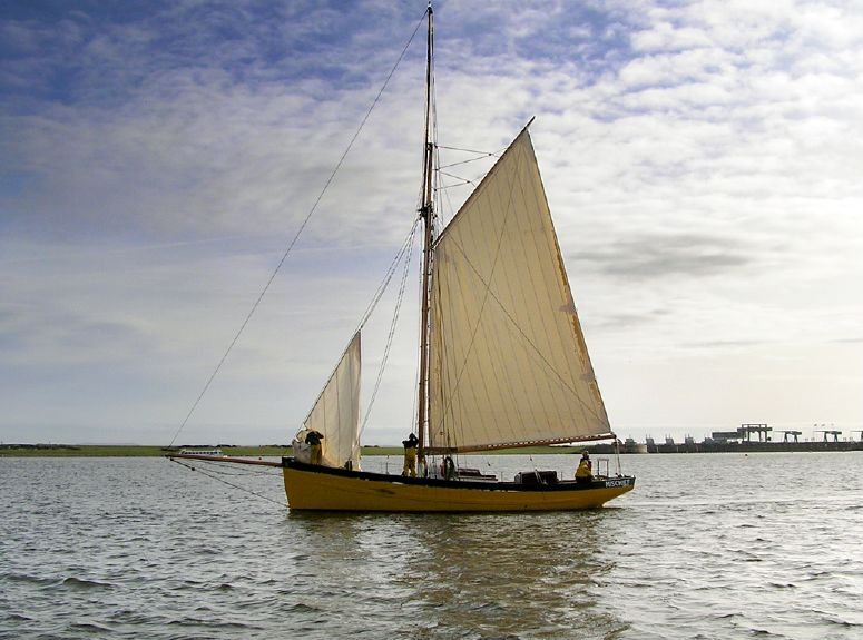 Rigging the jib on the pilot cutter Mischief in Cardiff Bay.